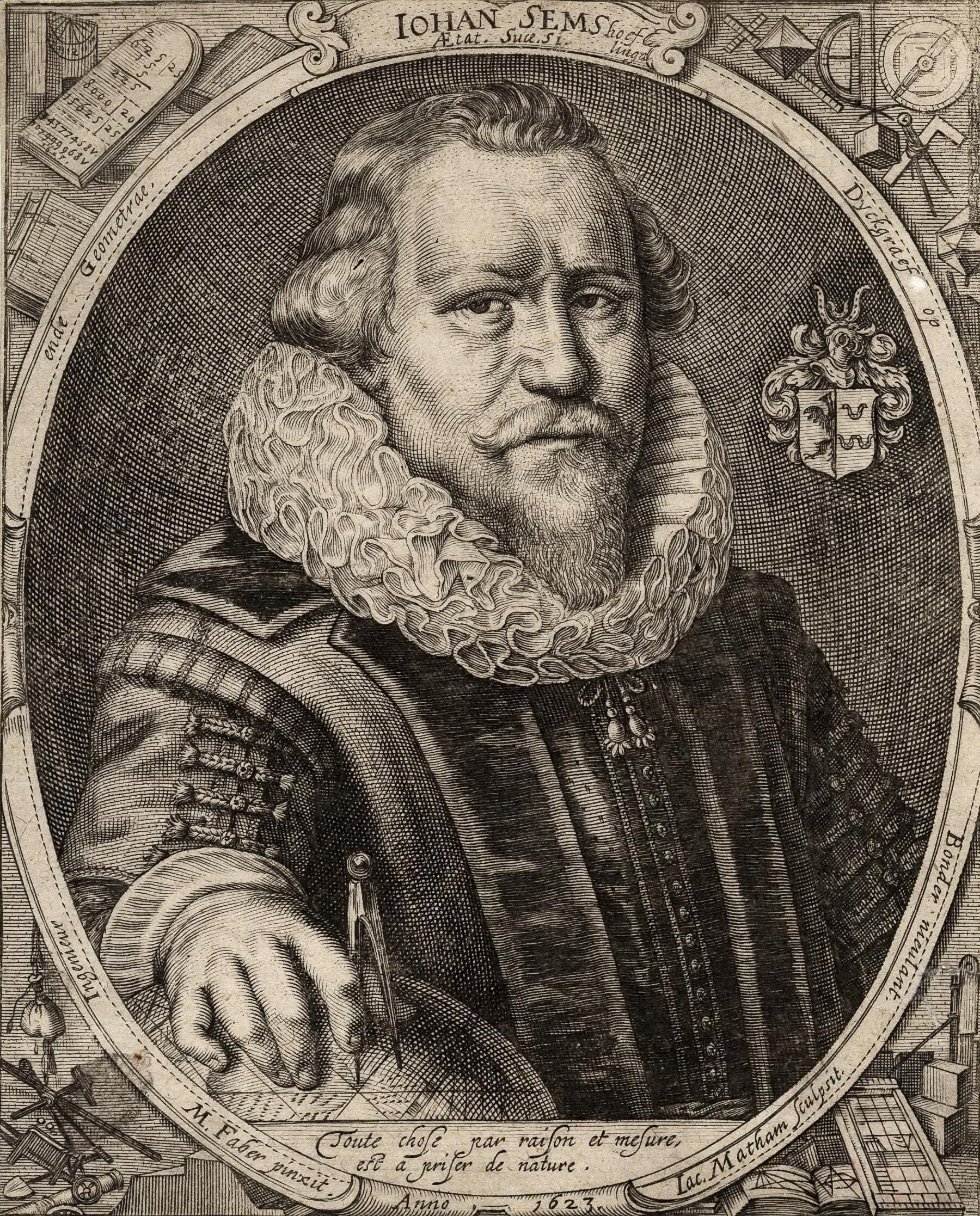 Inscription surrounding oval portrait of Johan Sems: Iohan Sems (hoofdGeland?); anno 1623; Ingenieur ende Geometrae; AEtat. Suae 51; Dyckgraef op Bonder Nieulandt. "Toute chose par raison et mesure, eté a priser de nature."' M. Faber pinxit; Iac. Matham sculpsit